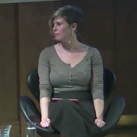 London Thinks Shouting Back Conway Hall Caroline Criado-Perez.